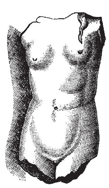 Statue of Afrodite found in Veroia, Greece